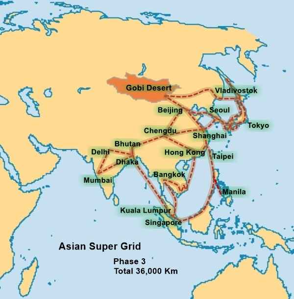 Asian Super Grid proposal from Renewable Energy Institute - '